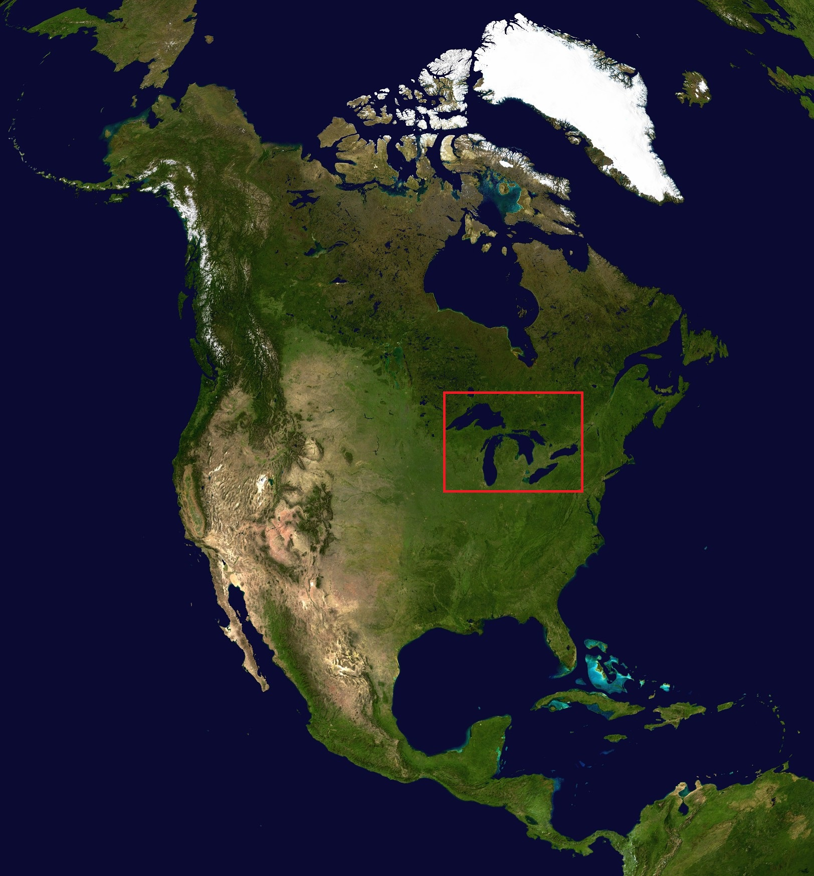 A satellite image of North America with the Great Lakes in a red box showing where they are.